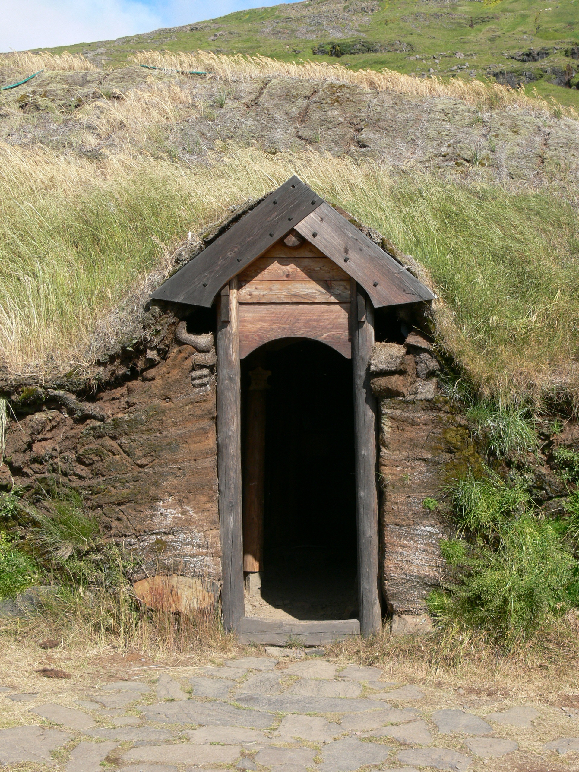 Eiríksstaðir. Entrance to the farm building.